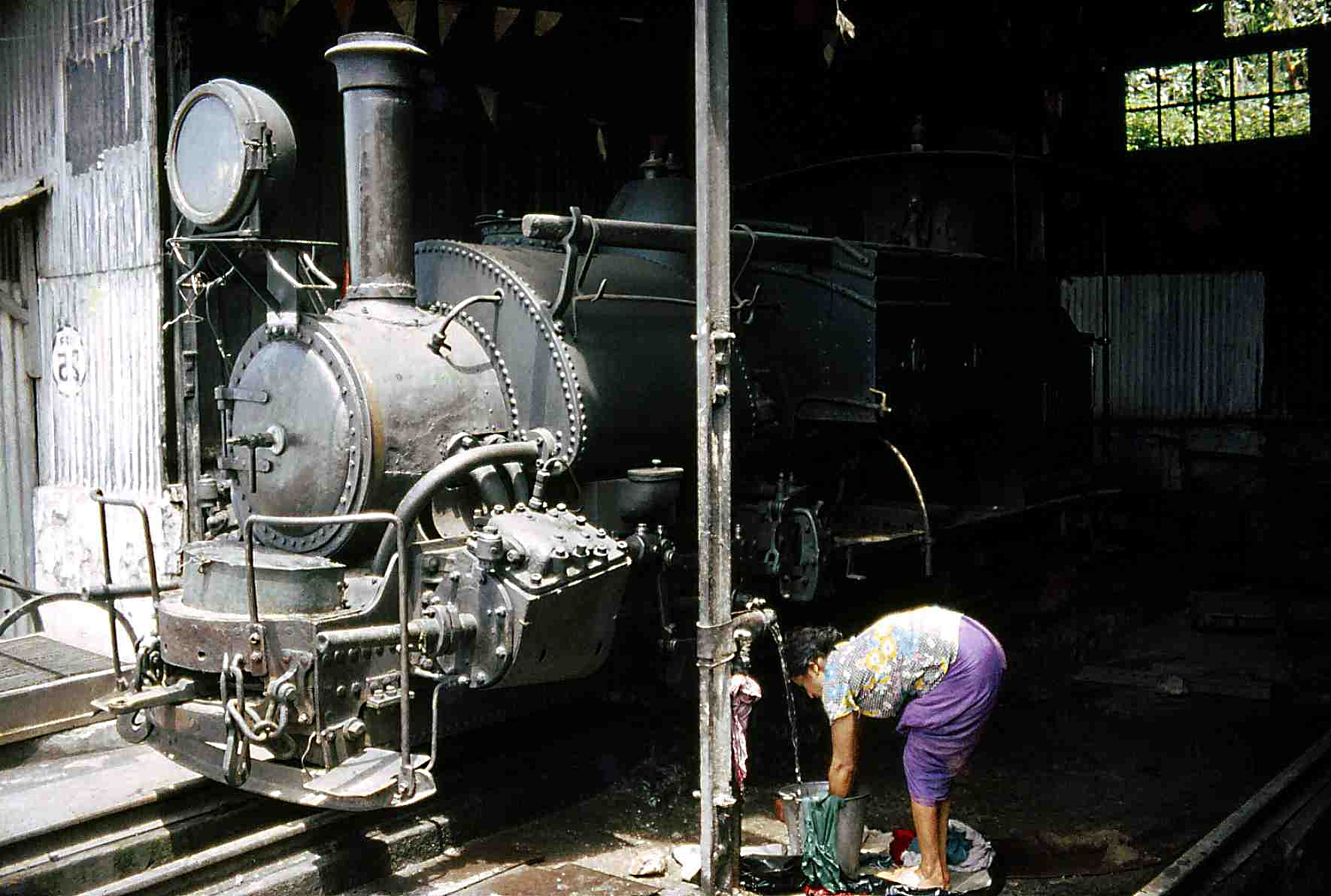 I took this photo on a trip to Darjeeling in 1979